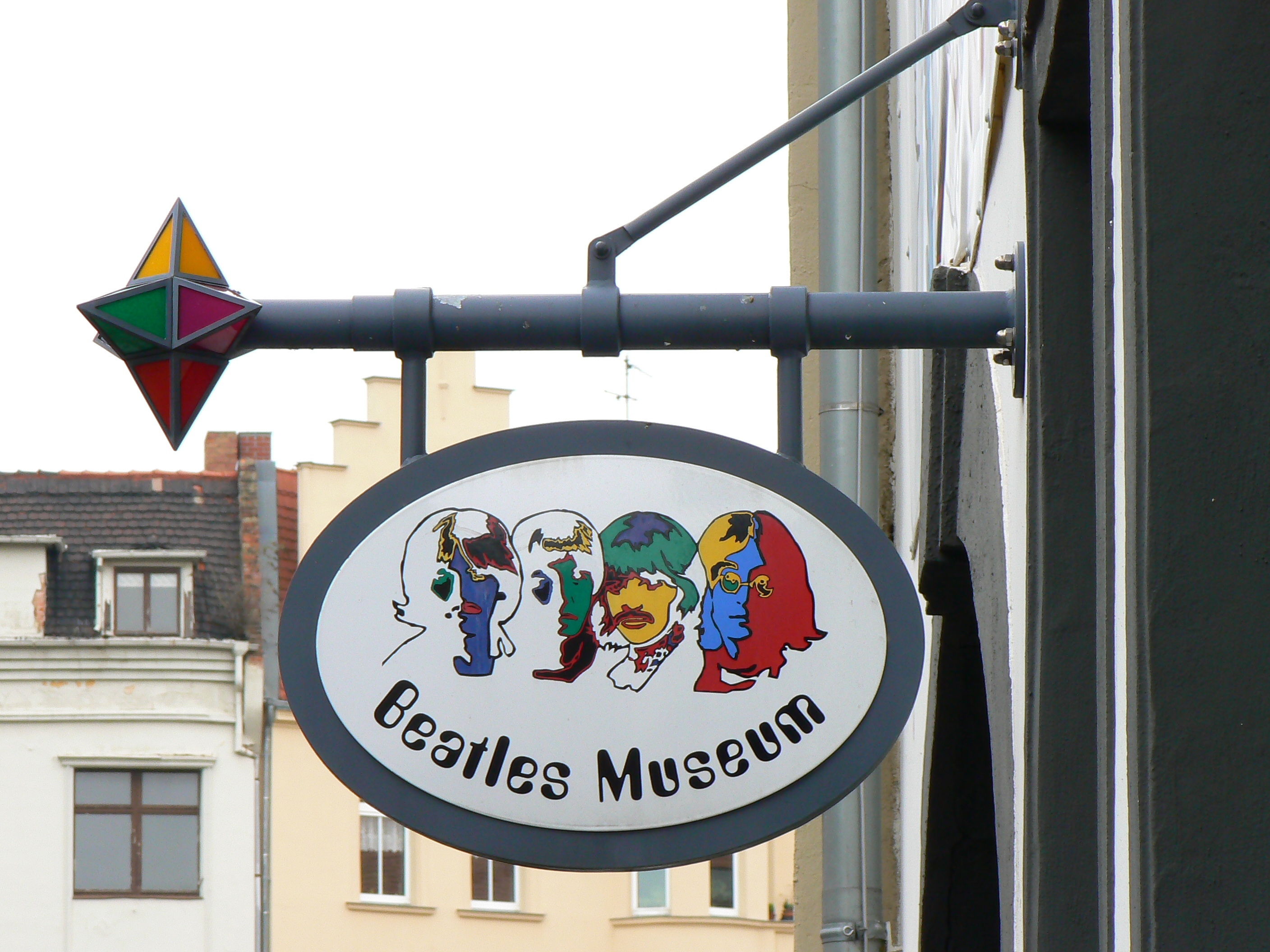 Beatles-Museum in Halle (Saale) signboard